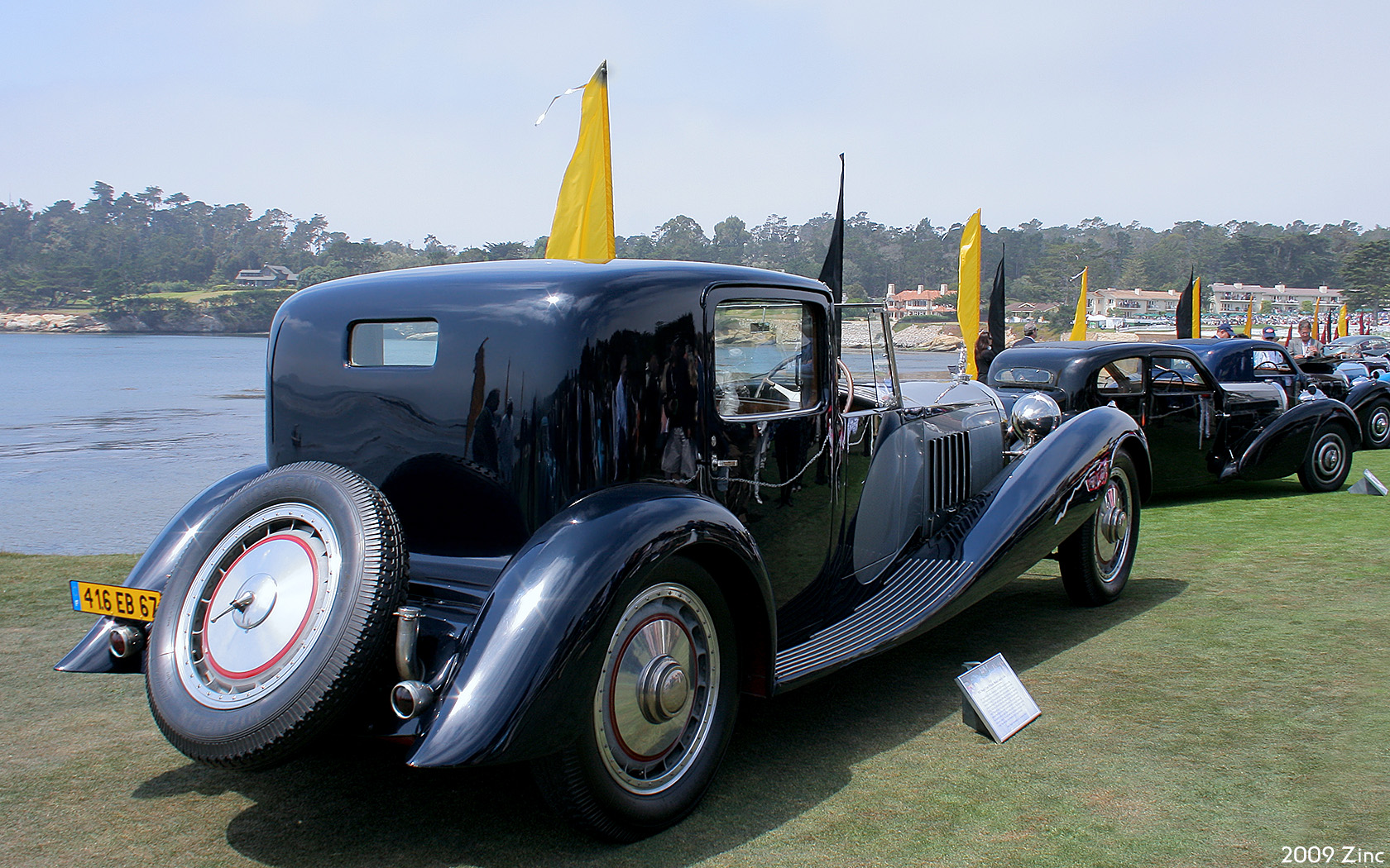 Bugatti Typ 41 "La Royale", Chassis #41-111 (1932), Coupé de Ville coachwork built by Henri Binder 1935 Pebble Beach Concours dElegance, Aug 16, 2009